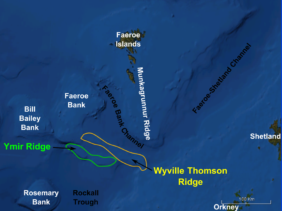 Shaded bathymetry of the Atlantic NW of Scotland, from the NASA WorldWind software with annotation showing the location of main bathymetric features, particularly the Wyville-Thomson and Ymir Ridges